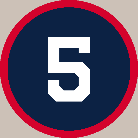 Player: Lou Boudreau. A recreation of how it looks at Progressive Field, in which the background is beige on a blue circle with white numbers and red circling.